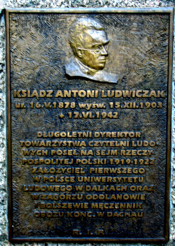 Conmemorative plaque of Father Antoni Ludwiczak, bibliophile, founder of People's Universities in Poland, prisoner of KL Dachau, martyr